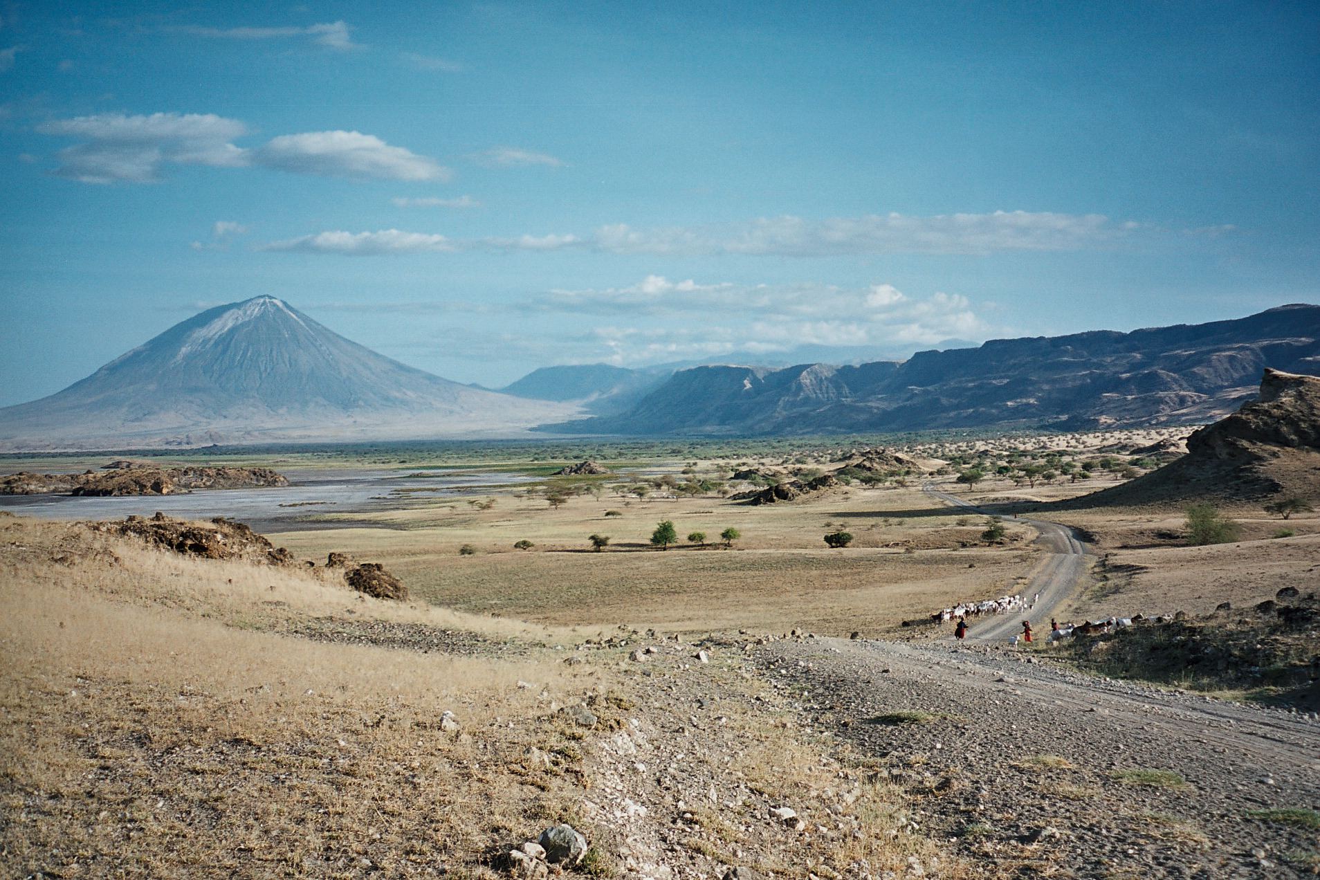 Landscape in Northern Tanzania, inside the great Rift valley. A dirt track is heading towards the Masaï village of Ngare Sero, 5 km south. The southern end of Lake Natron is visible on the left, the inner rim of the great rift on the right. The landscape is dominated by the huge Ol Doinyo Lengai volcano while the Ngorongoro highlands around Empaakai are visible in the background.